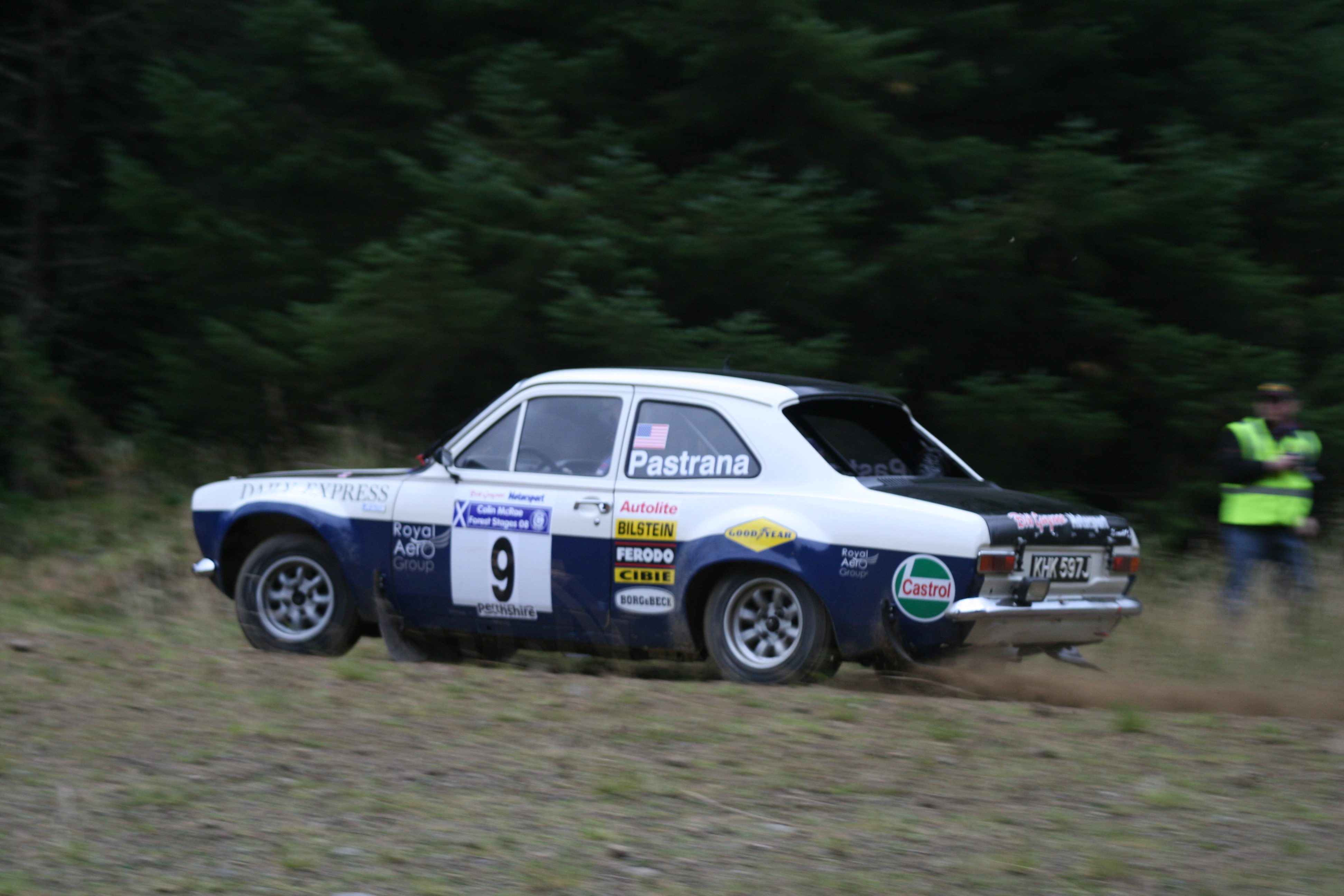 Travis Pastrana driving a Ford Escort Mk1 at the 2008 Colin McRae Forest Stages Rally.